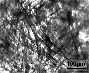 micrograph of a coffee filter; several cellulose fibers are visible.